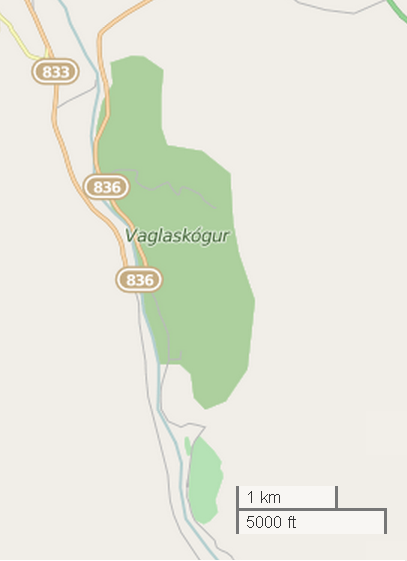 Vaglaskógur map